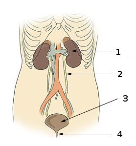 Urinary system language neutral with numbers